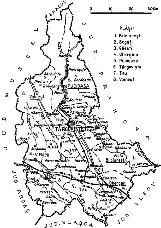 Map of Dâmbovița interwar county, Kingdom of Romania (1938).